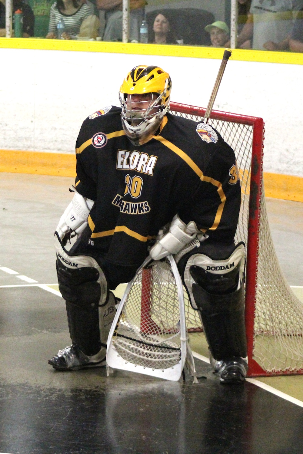 This photo was taken by Devan Mighton during the 2015 OJBLL season.